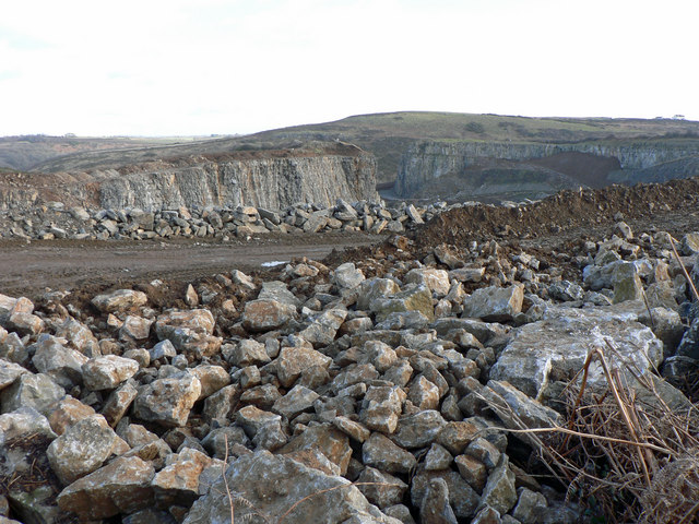 Top of Pant Quarry, St Bride's Major As well as a wire fence barrier, heaps of spoil help prevent access to the top of the quarry edge.